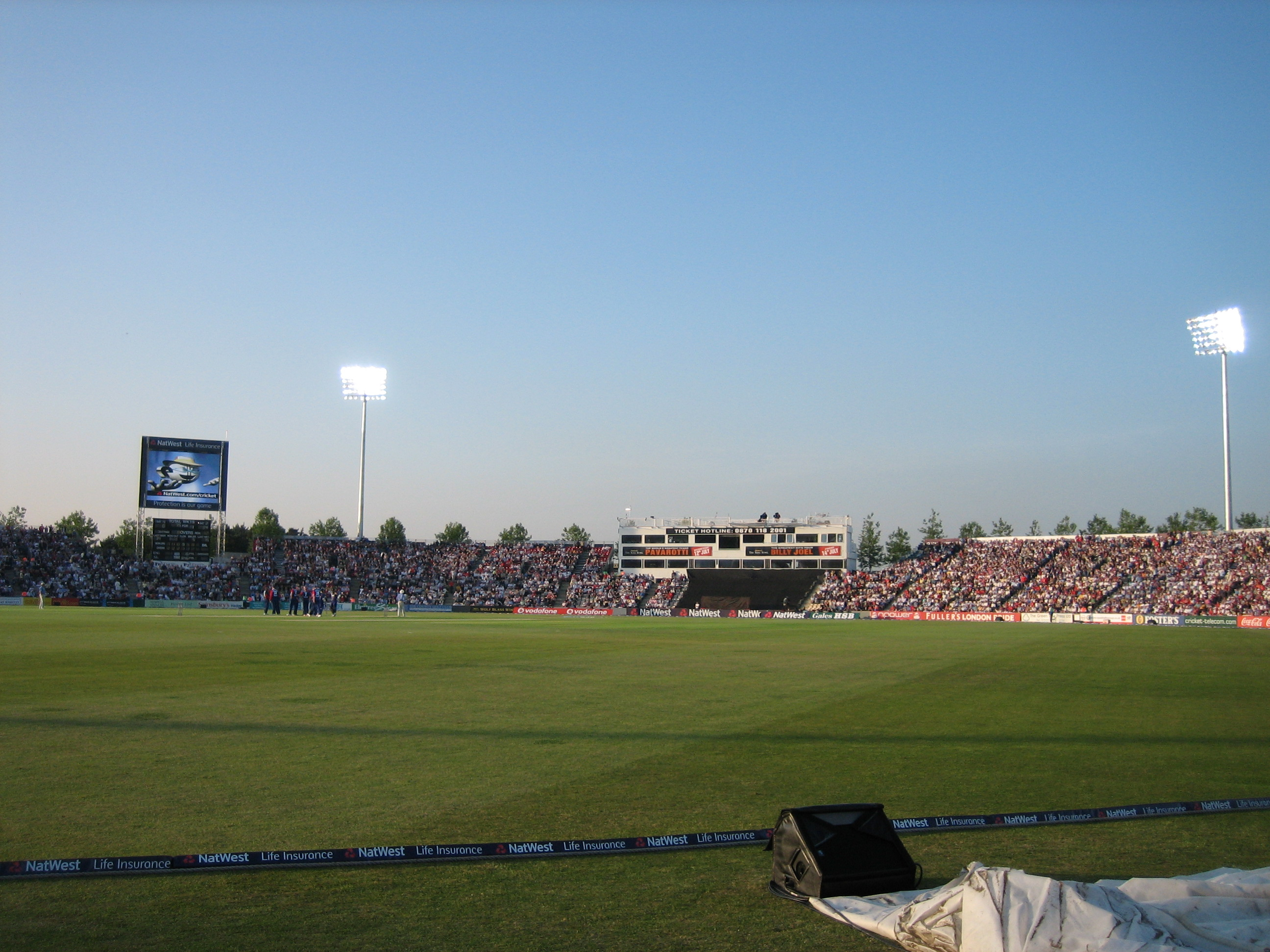 Rose Bowl with floodlights during Twenty20 match